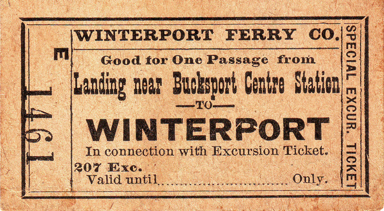 Winterport Ferry Co. ticket from the landing near Bucksport Centre Station, Bucksport across the Penobscot River to Winterport 1920s Digital Image Ticket